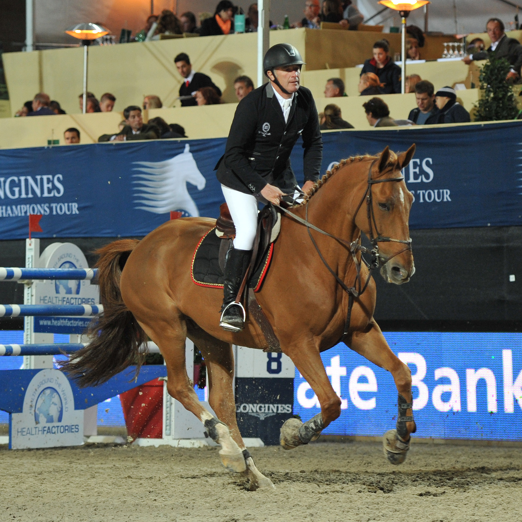 Vienna Masters am 21. September 2013 Longines Global Champions Tour Roger Yves Bost (FRA) auf Colombo van den Blauwaert